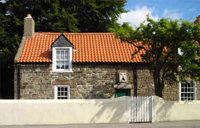 Dial Cottage in Westmoor/Killingworth, Tyne and Wear, UK.